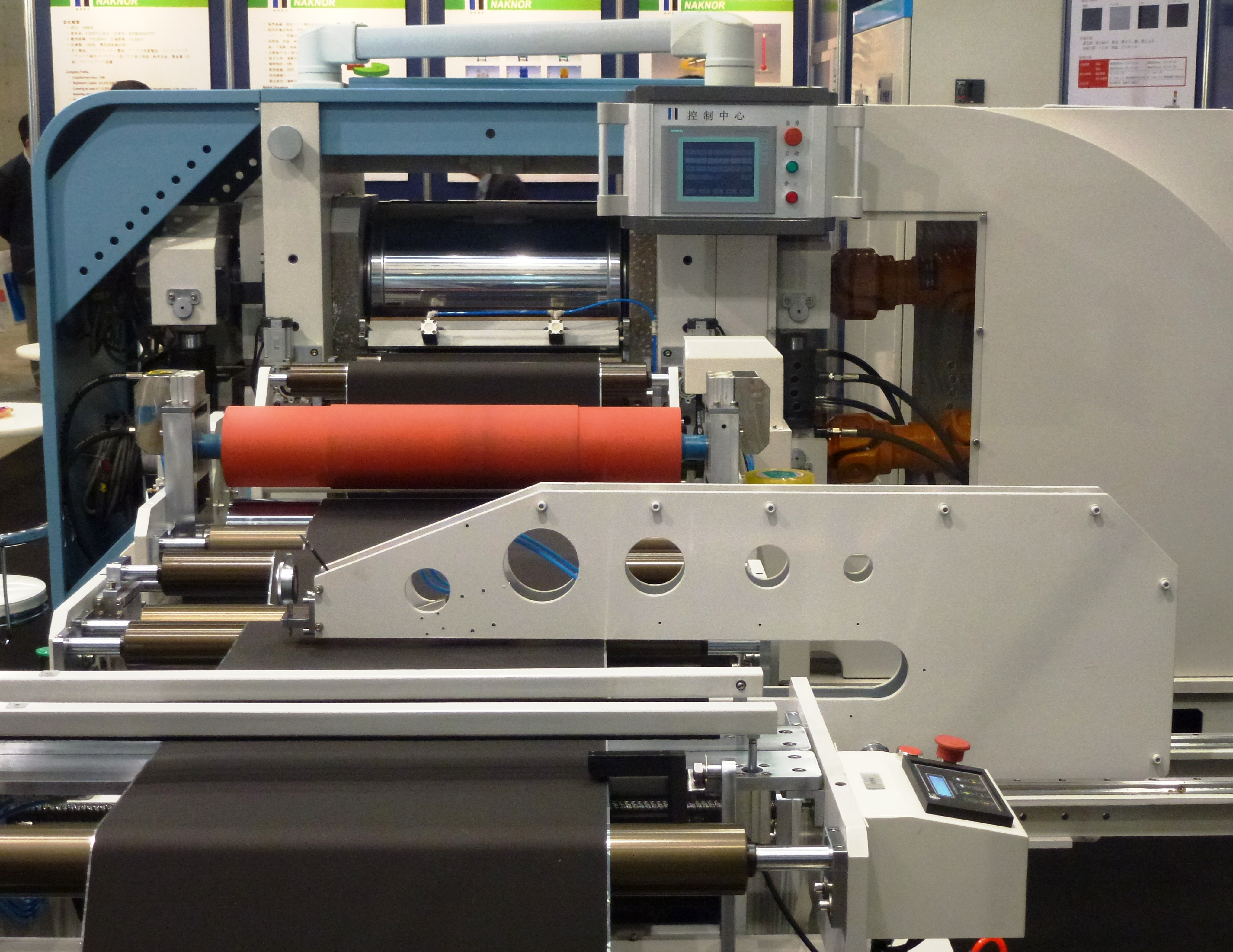 Calander (Pressing) machine for Lithium-Ion battery electrode manufacturing